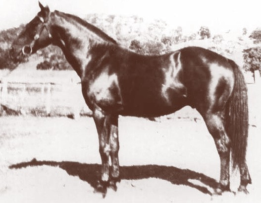 Radium (1918-1947). Radium (stock horse) was an outstanding Australian bred campdrafter and very influential ancestor of Australian Stock Horses. He was a bay stallion bred by Donald Beaton of Levedale, Gloucester, New South Wales. Radium died 24 years before the formation of the ASH Society.